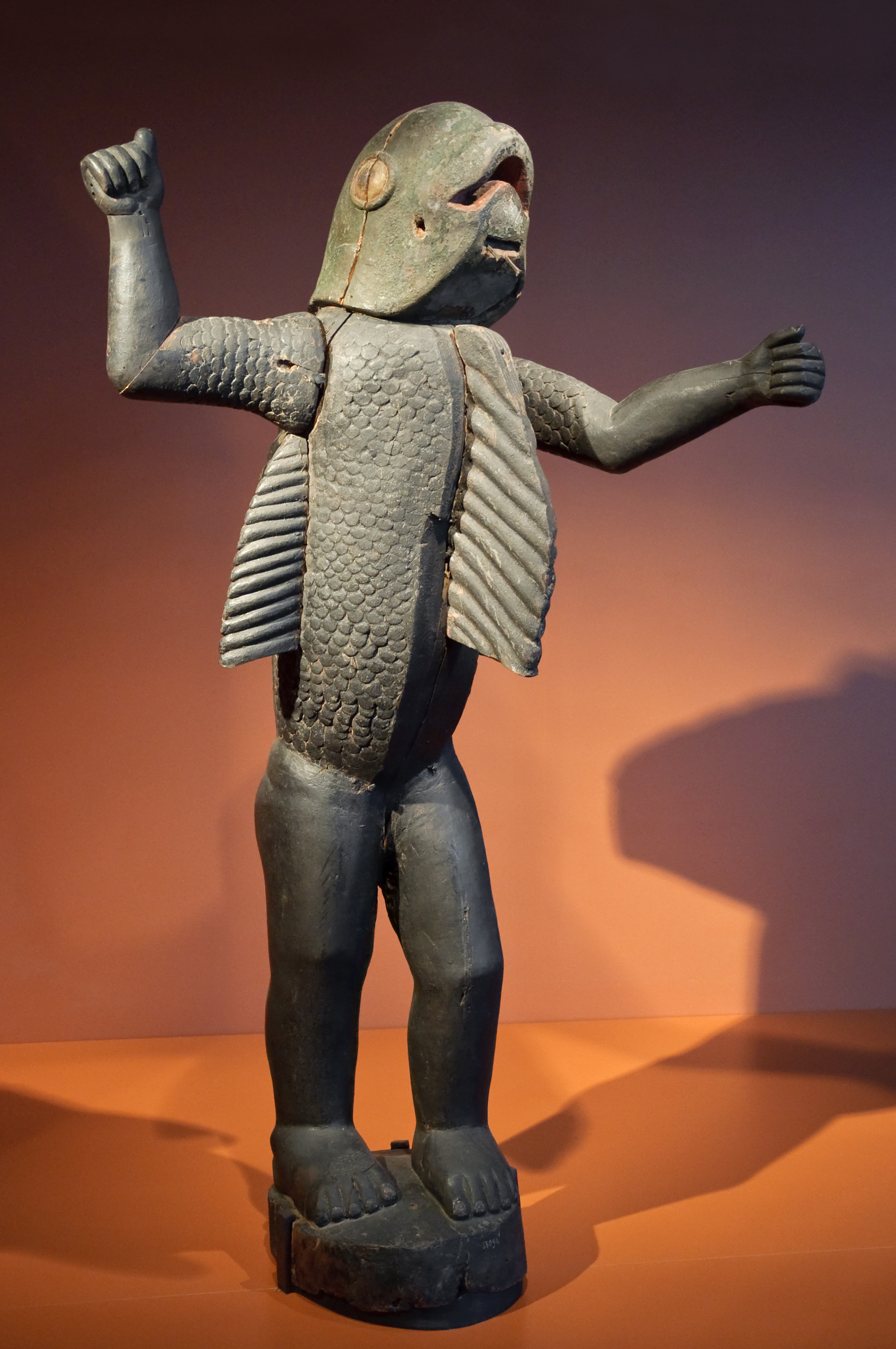 Half-man, half-fish statue (called bochio), Fon style. Provenance : Abomey, ancient kingdom of Dahomey.This statue would represent Béhanzin, the last king of Dahomey (now Benin). His coat of arms featured a shark. To announce his intention to fight the French fleet which was stationing at Cotonou and crossed the sandbar every day, Béhanzin compared himself to the shark: “the daring shark has troubled the sandbar” ("gbo ouele fandan agbedui brou").